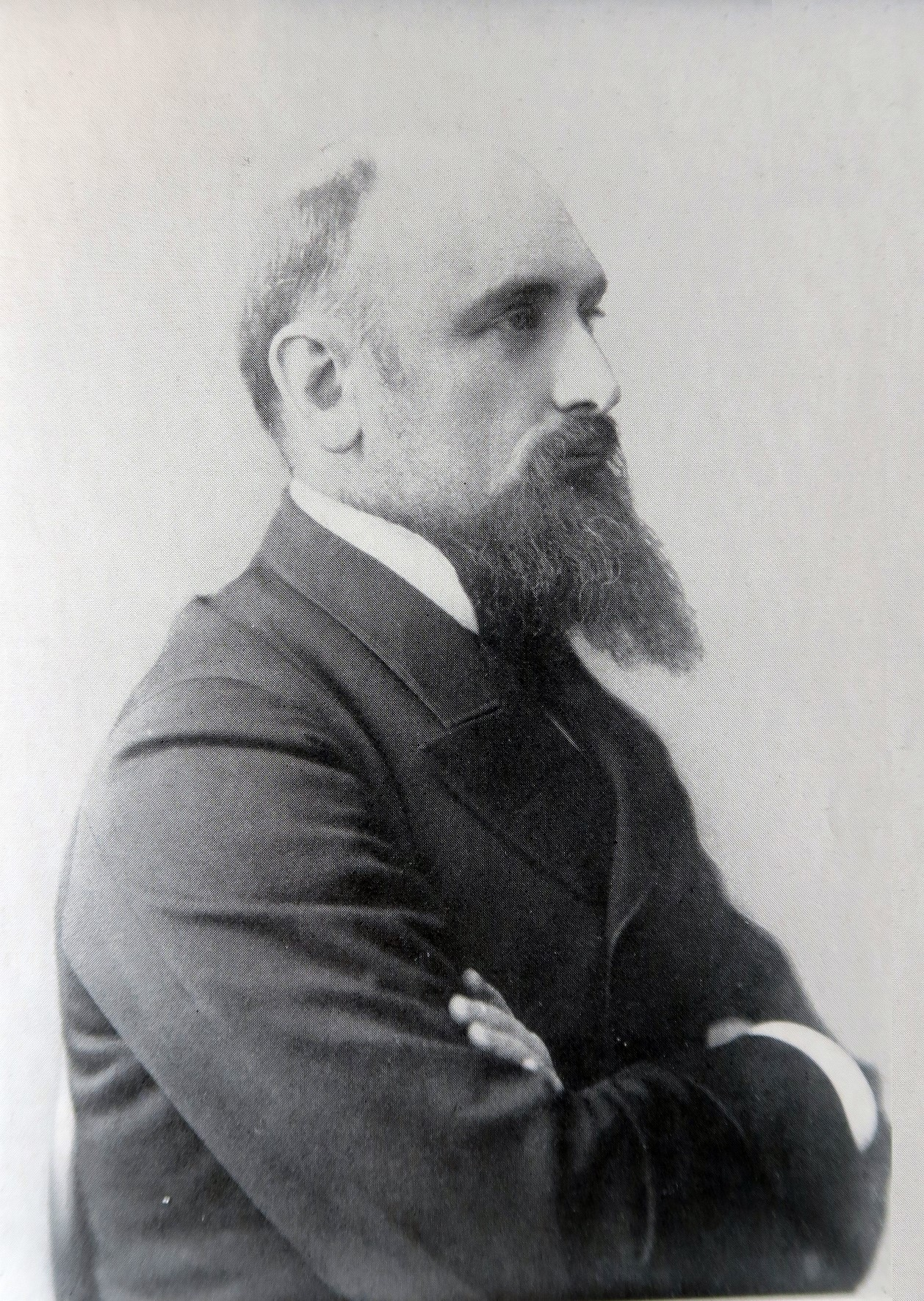 Portrait of Dr.Paul Mayet, German instructor in Meiji-Japan